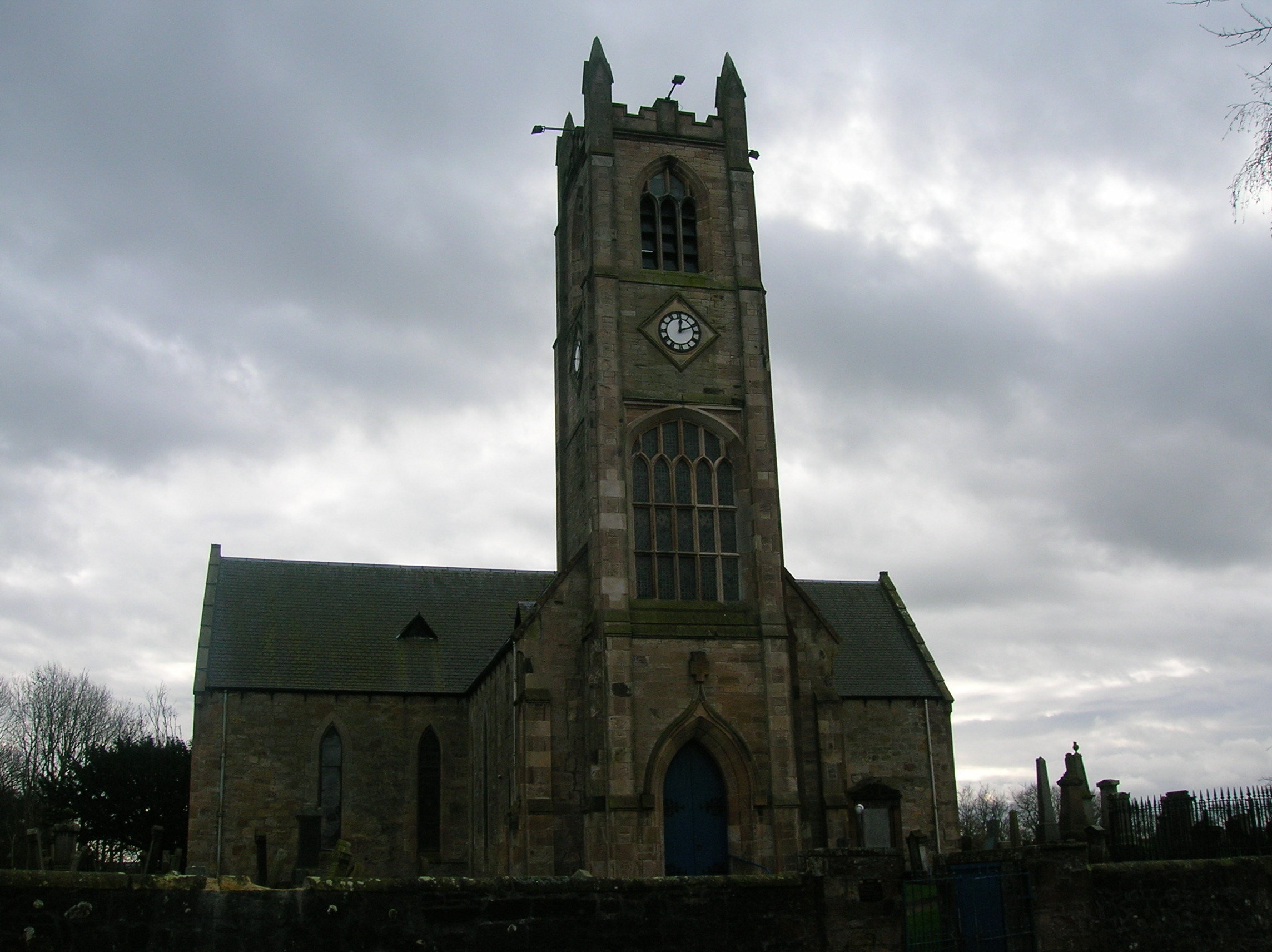 Kilmaurs-Glencairn Kirk in Kilmaurs, East Ayrshire. 2007.